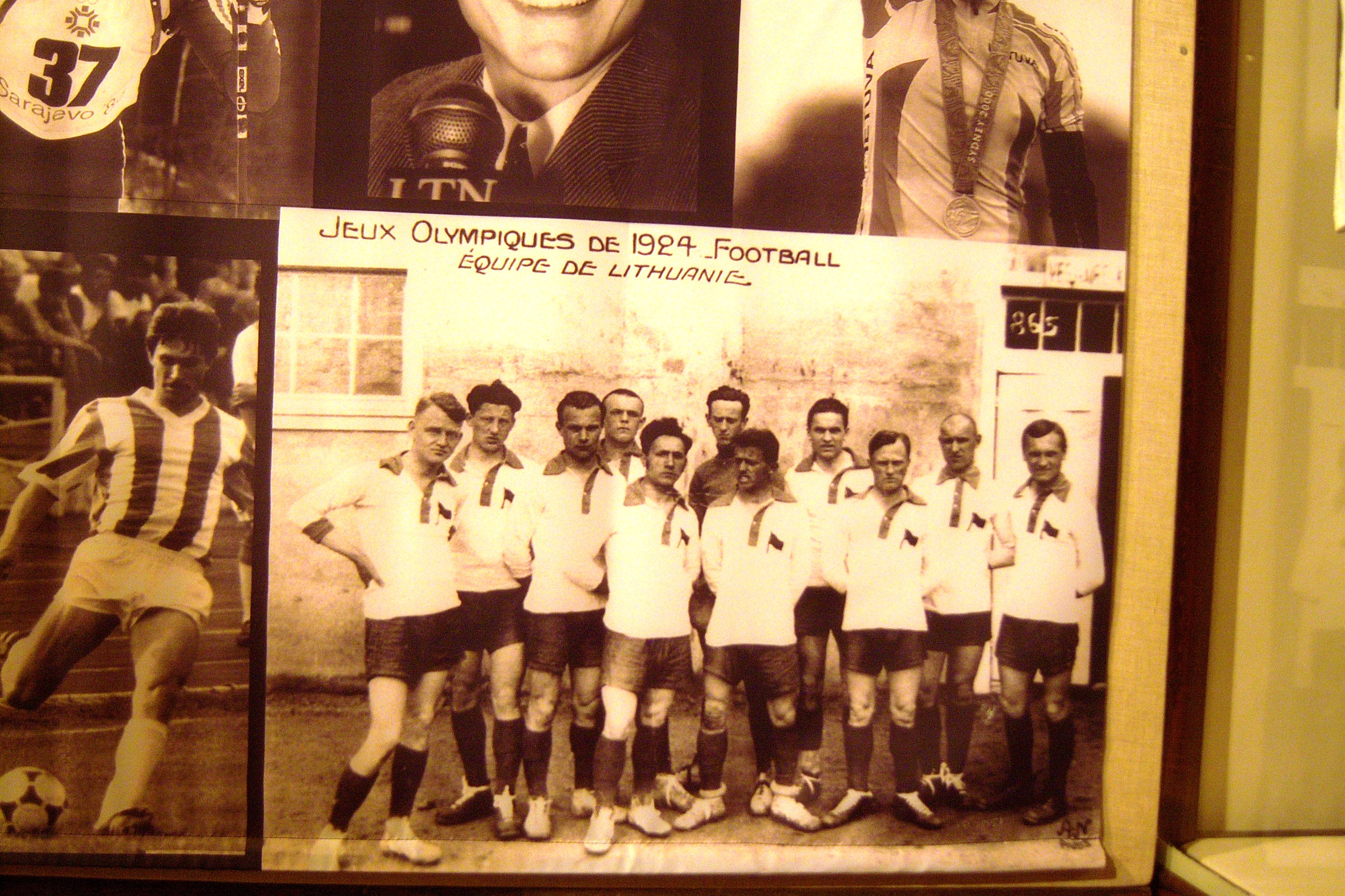 Lithuanian Olympic football team in Paris, 1924. Sports Museum, Kaunas, Lithuania